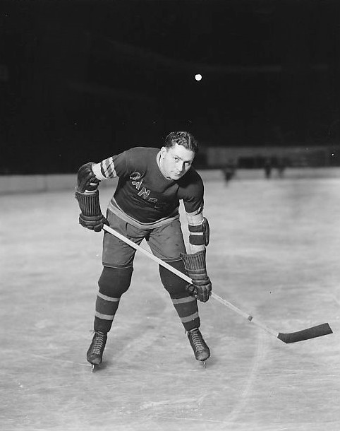 Photo of New York Rangers player Brian Hextall.